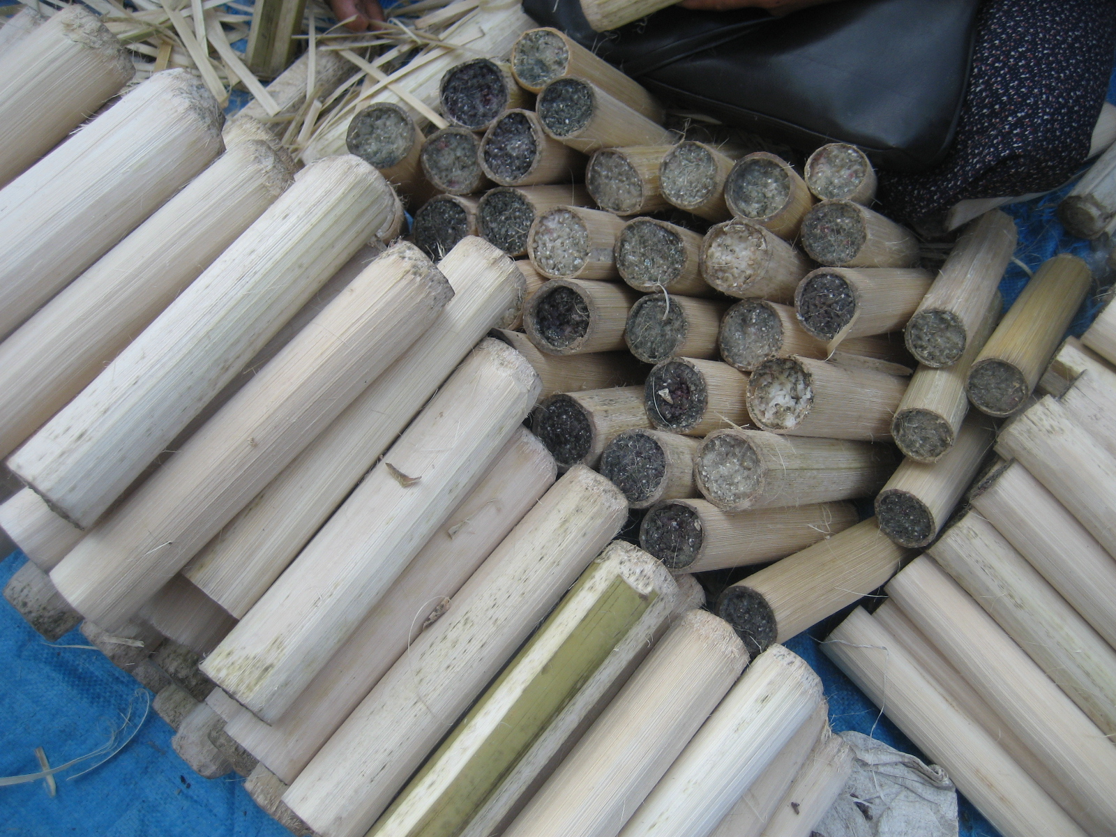 Paung din - glutinous rice, both purple and white varieties, cooked in bamboo tubes; Mandalay, Myanmar.